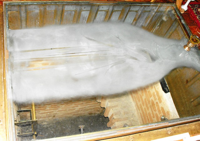 Mirăuţi Church in Suceava - the tomb inside the church.